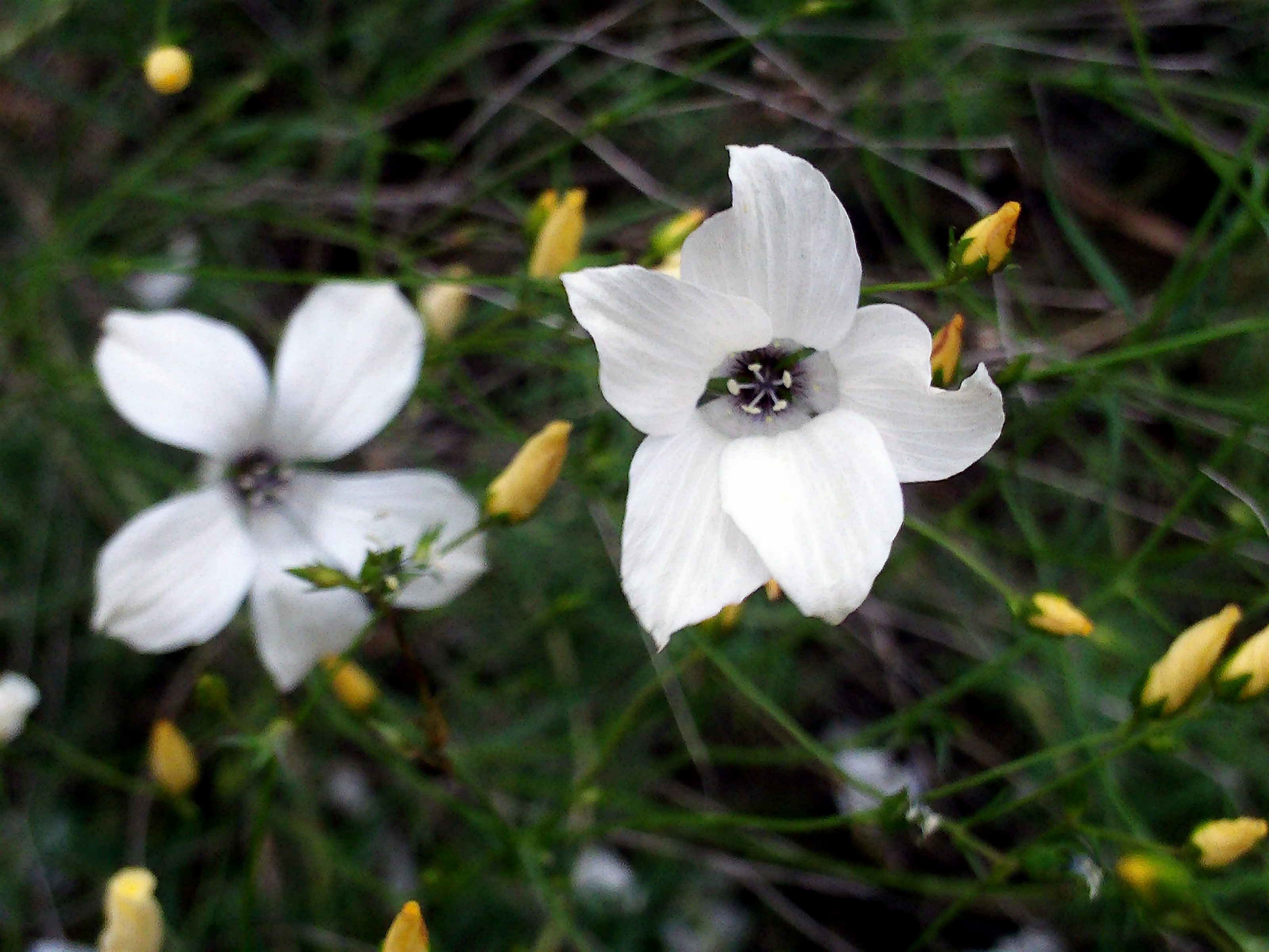 Linum suffruticosum Flowers close up Dehesa Boyal de Puertollano, Spain